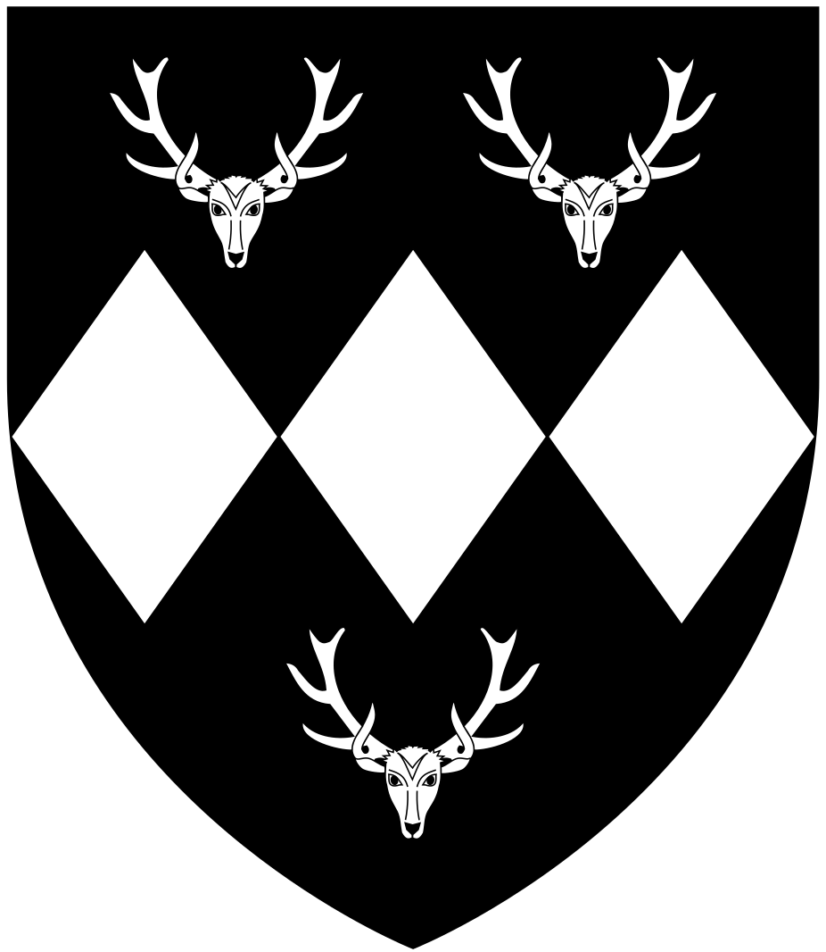 Arms of Budockshed (alias Budshead, Budeokshead, Budokeside, etc) of Budockshed in the parish of St Budeaux, near Plymouth in Devon: Sable, three fusils in fess between three buck's faces argent (Source: Pole, Sir William (d.1635), Collections Towards a Description of the County of Devon, Sir John-William de la Pole (ed.), London, 1791, p.471)